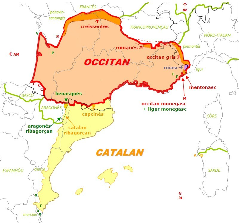 Transition areas between Occitan and neighbouring Romance according to Domergue Sumien